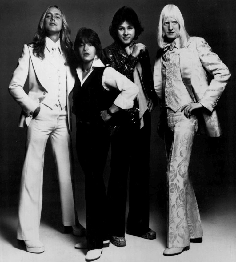 Photo of The Edgar Winter Group with Rick Derringer. From left: Chuck Ruff, Rick Derringer, Dan Hartman, Edgar Winter.